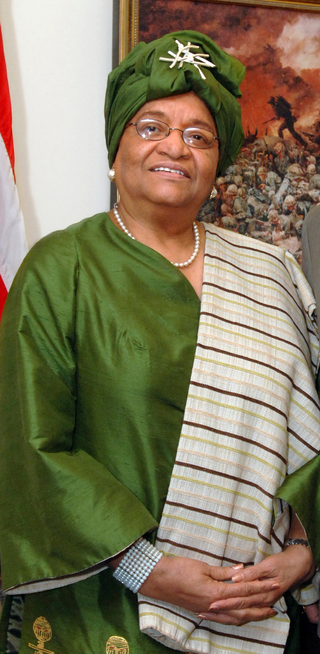 Liberian President Ellen Johnson-Sirleaf poses for a photo in the Pentagon Oct. 24, 2007, before sitting down to substantive, bilateral security discussions.